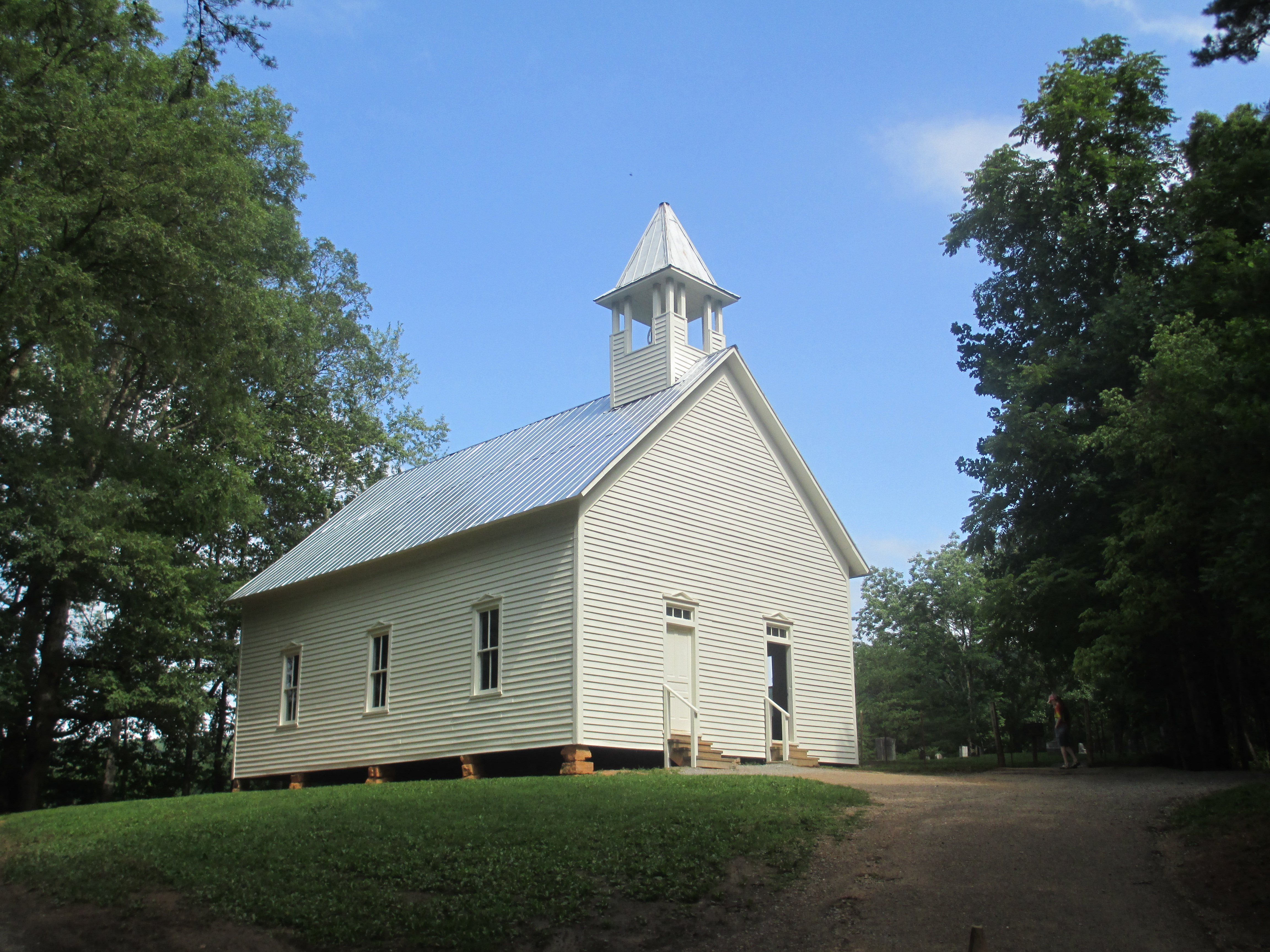 I took photo with Canon camera of Methodist Church at Cades Cove, TN.